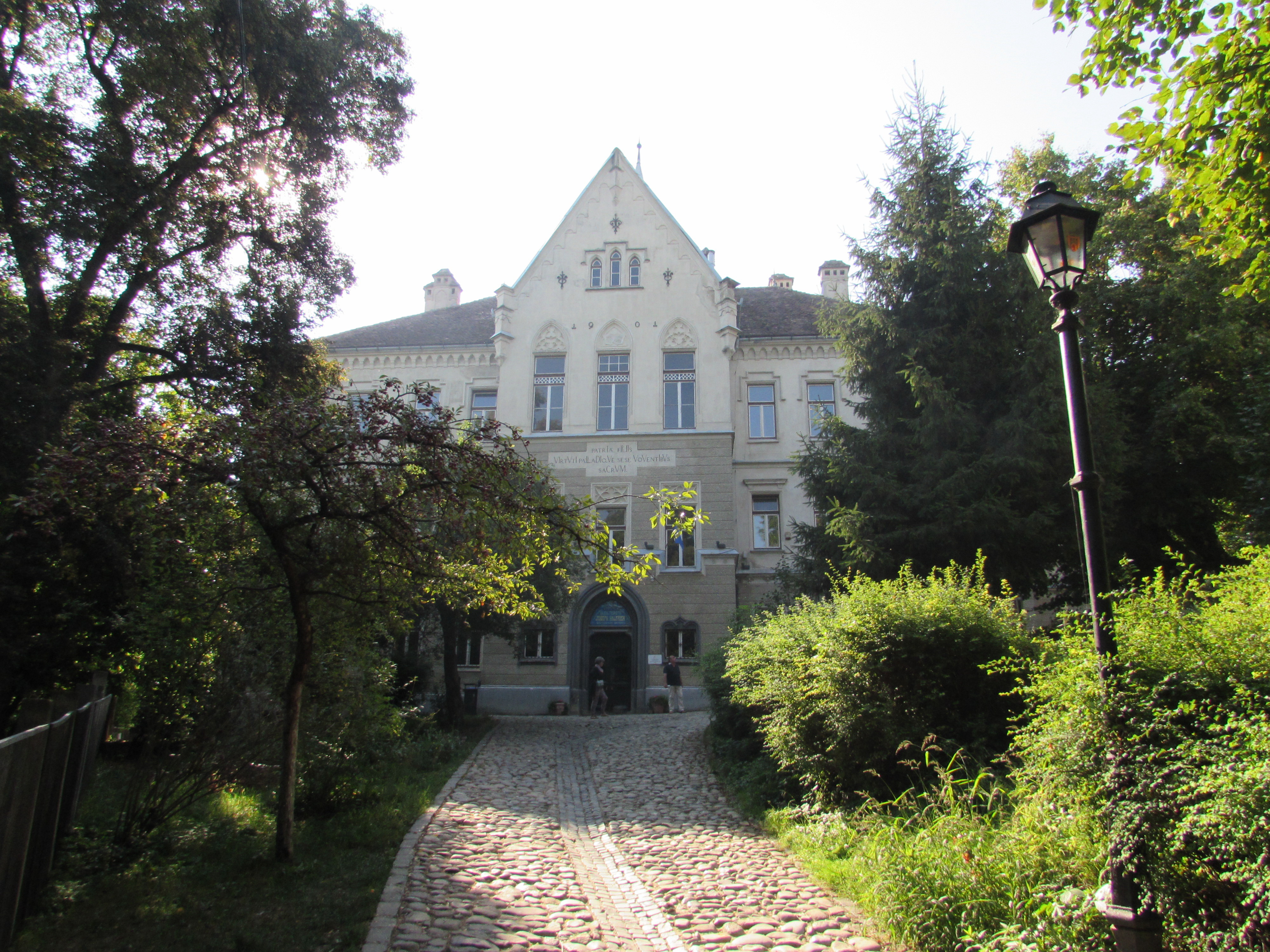 Josef Haltrich High School in Sighișoara